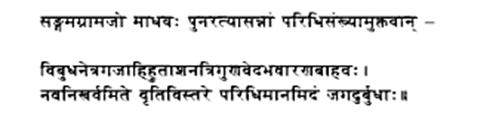 Madhava,s value of pi as quoted in : C.K. Raju (2007). Cultural foundations of mathematics: The nature of mathematical proof and the transmission of calculus from India to Europe in the 16 th c. CE. History of Philosophy, Science and Culture in Indian Civilization. X Part 4. Delhi: Centre for Studies in Civilizations. pp. 114 - 123.